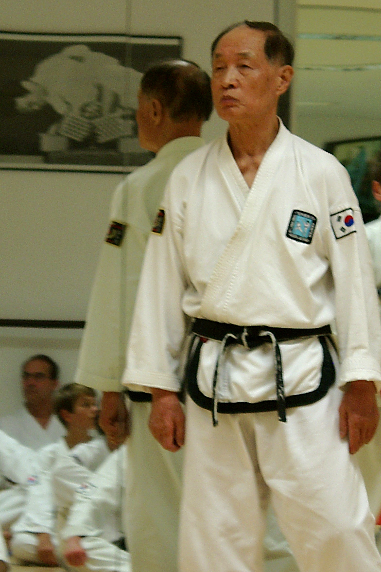 Taekwondo Grandmaster Kwon Jae-hwa